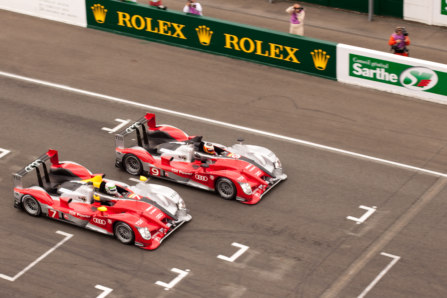 Winner of the 2010 edition of Les 24 heures du Mans. Allan McNish (#7) and Timo Bernhard (#9).